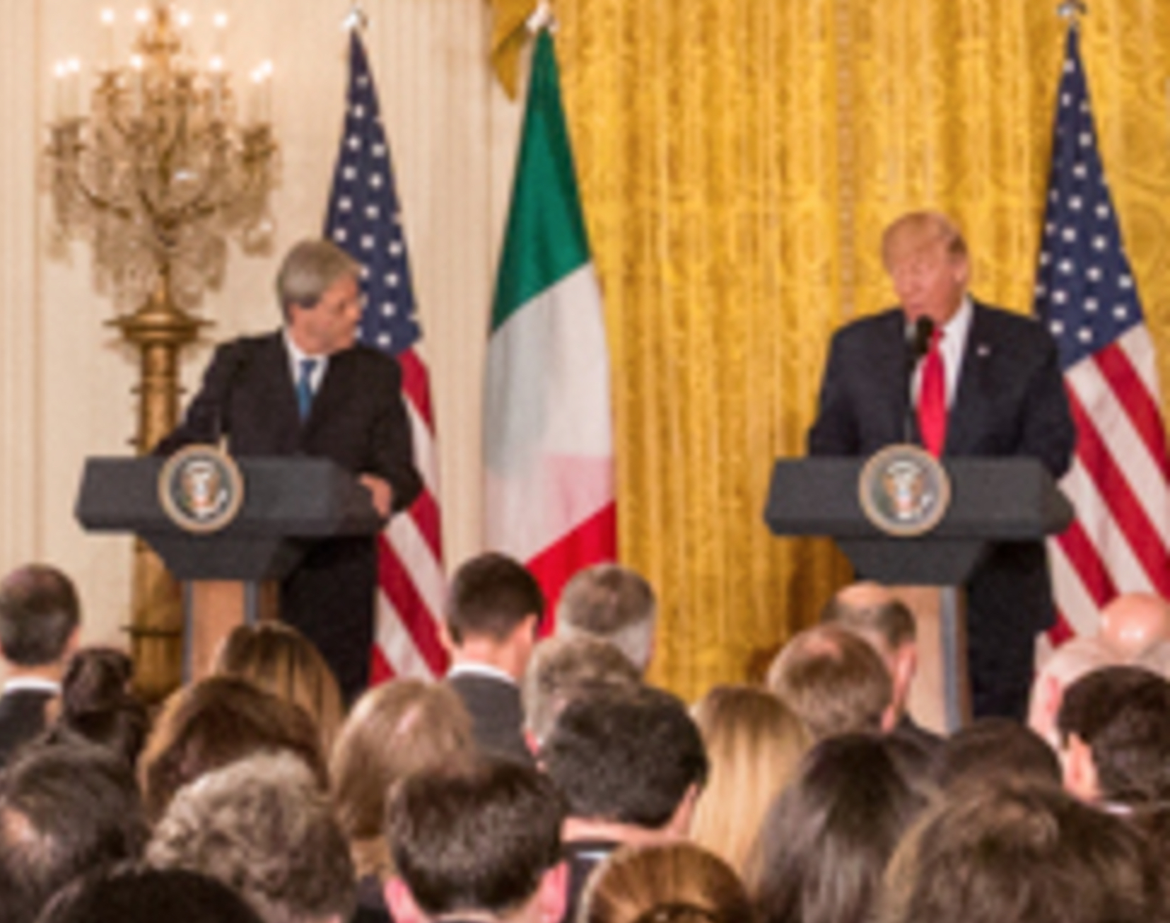 President Donald J. Trump and Prime Minister Paolo Gentiloni of Italy hold a joint press conference. (Official White House Photo by Shealah Craighead).